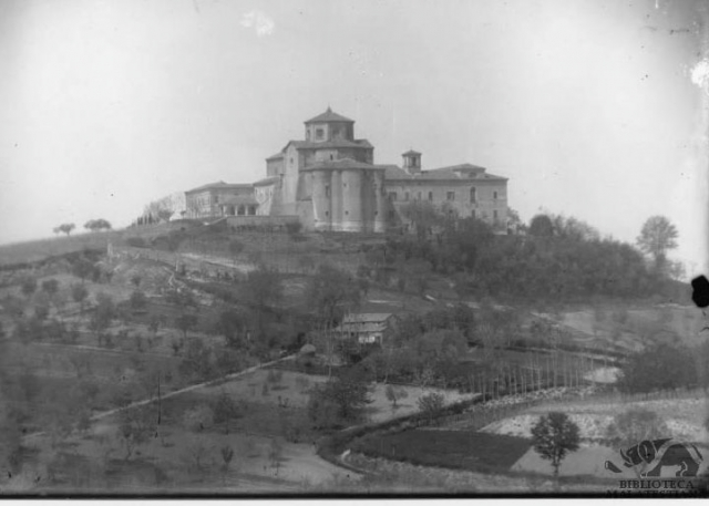 Abbey of St. Maria del Monte, Cesena, Italy.